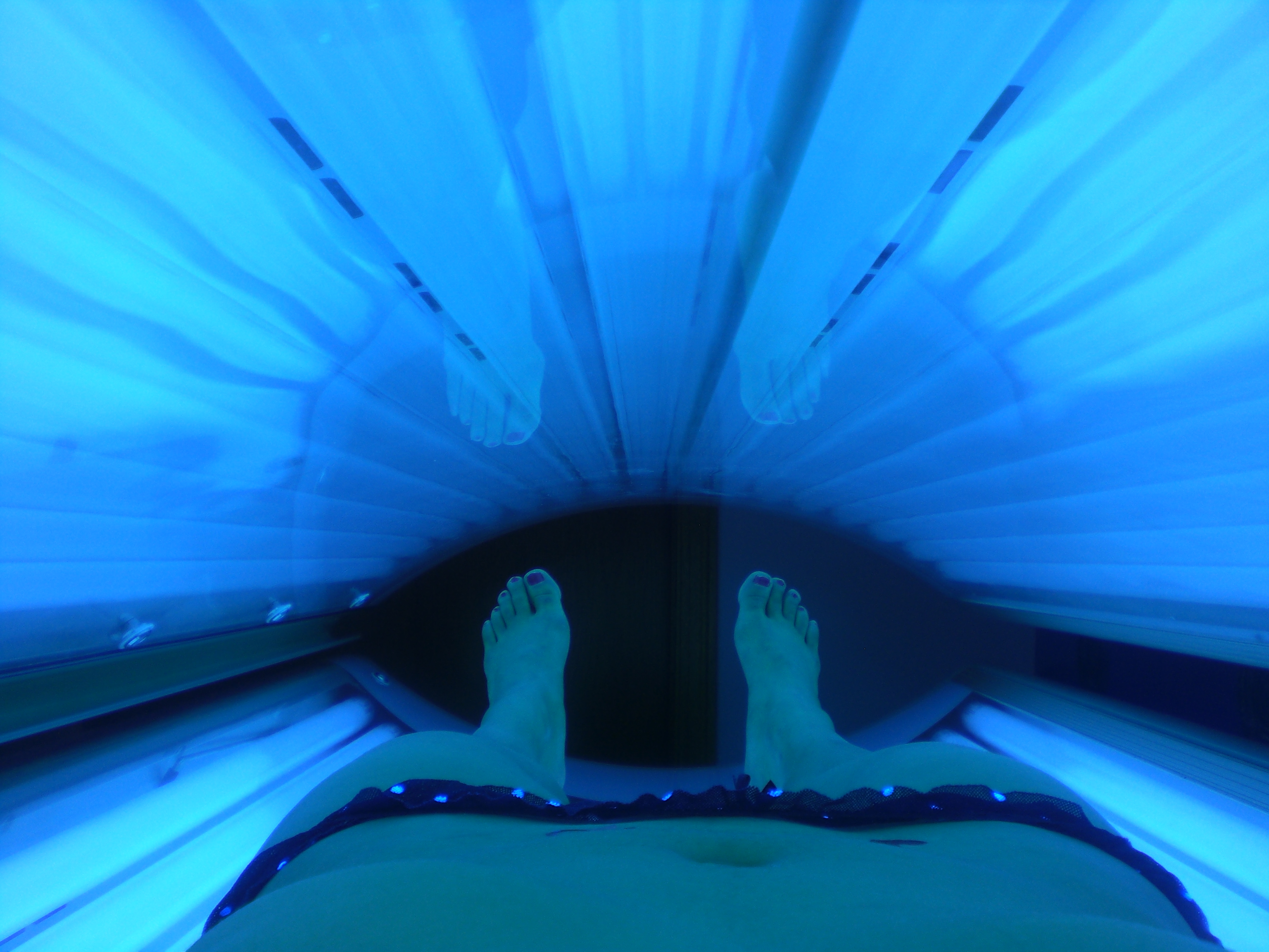 Woman uses a tanning bed.